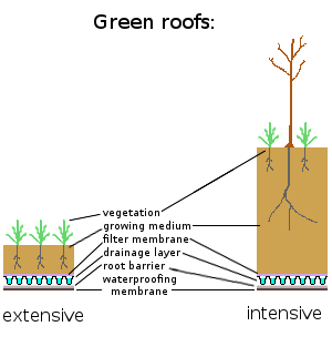 Schematic showing the setup of an intensive and an extensive green roof. For the thicknesses of the growing medium layer of both, we can make a distinction into 4 types[1][2]: Extensive green roofs: thickness range 1= 7,6 cm to 10,2 cm (suitable for sedums, herbs) thickness range 2= 12,7 cm to 17,8 cm (sedums, herbs, perennials) Intensive green roofs: thickness range 3= 25,4 cm to 30,5 cm (perennials, grasses, shrubs thickness range 4= 30,5 cm+ (grasses, shrubs, trees) Note that only tickness range 1 and 4 are shown in the schematic. Thickness range 3 was not drawn out, as it seems to be only practical for when designing sod roofs (which are not accessible roofs). Thickness range 4 instead are true intensive green roofs which are accessible[3] Note thate the membrane protection also works as root barrier, see this document, at page 2, it's marked as simply "root barrier" in the image Main references: ↑ Depths of extensive and intensive green roof media ↑ Depth of extensive and intensive green roof media, not that a minimum depth for intensive green roofs of 25,4 cm is given there ↑ Thicknesses of growing medium of intensive, extensive and semi-intensive roofs Other references